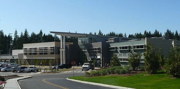 View of a building main entry approach, from the southeast. Lynnwood High School, Bothell, Washington, USA